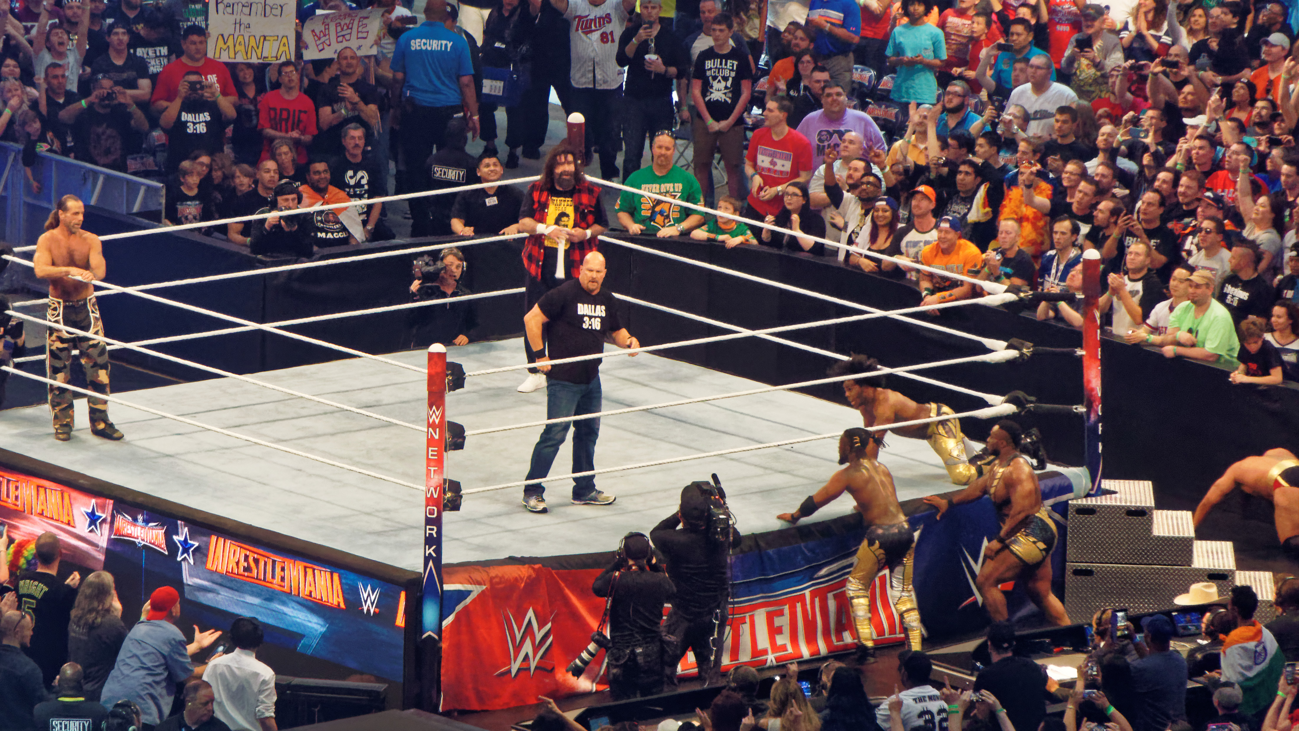 WrestleMania 32 was the thirty-second annual WrestleMania professional wrestling pay-per-view (PPV) event produced by WWE. It took place on April 3, 2016, at AT&T Stadium in Arlington, Texas. Twelve matches were contested on the card (with three matches occurring on the WrestleMania Kickoff pre-show - two airing live on the USA Network, which televised the second hour of the pre-show). Alberto Del Rio & Rusev & Sheamus def. (pin) Big E & Kofi Kingston & Xavier Woods (in 10:03) Type of match : 6-person tag Rating : **1/2